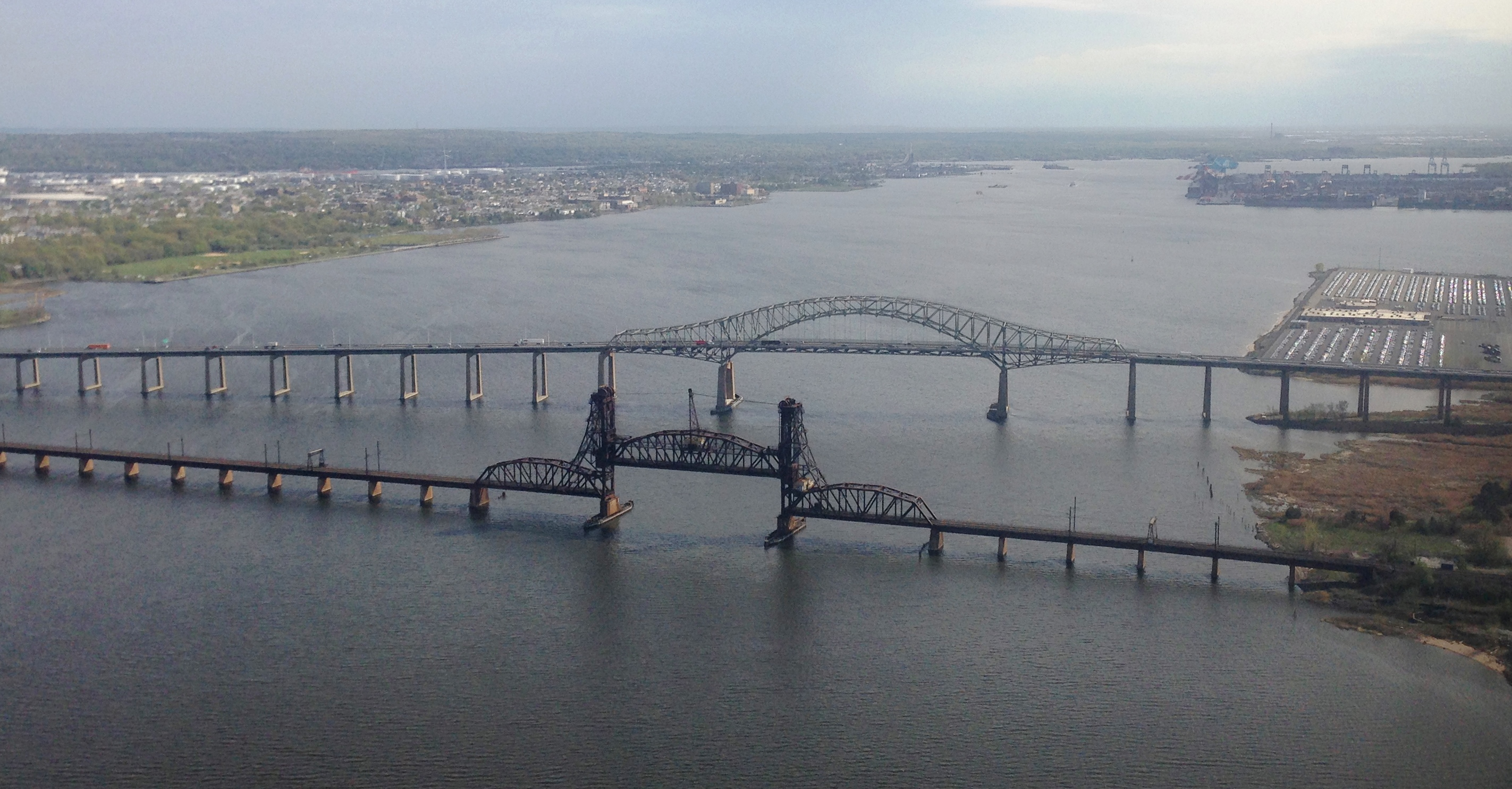 View of the Newark Bay Bridge from an airplane heading for Newark Airport-cropped